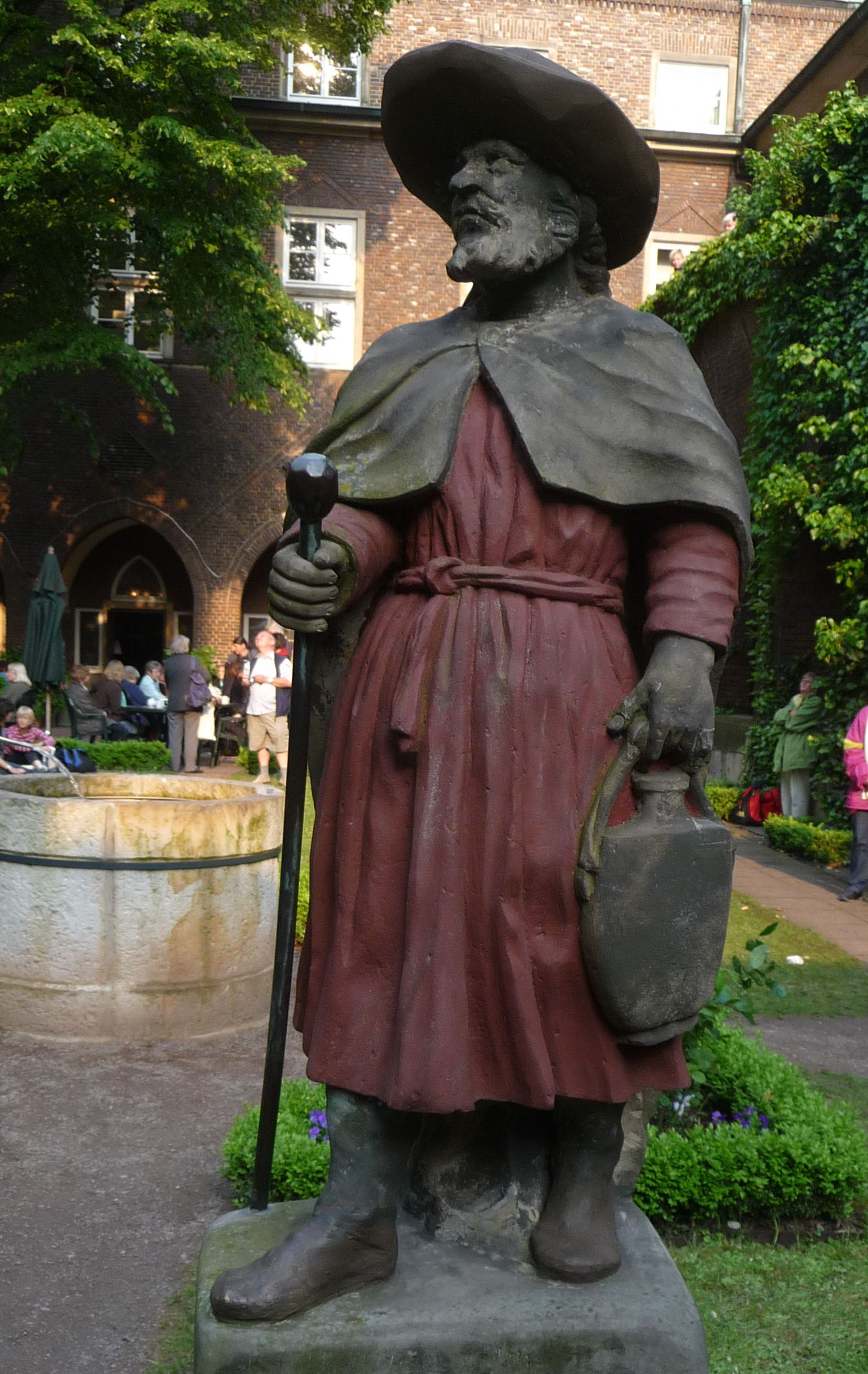 Sculpture in Bremen, Germany